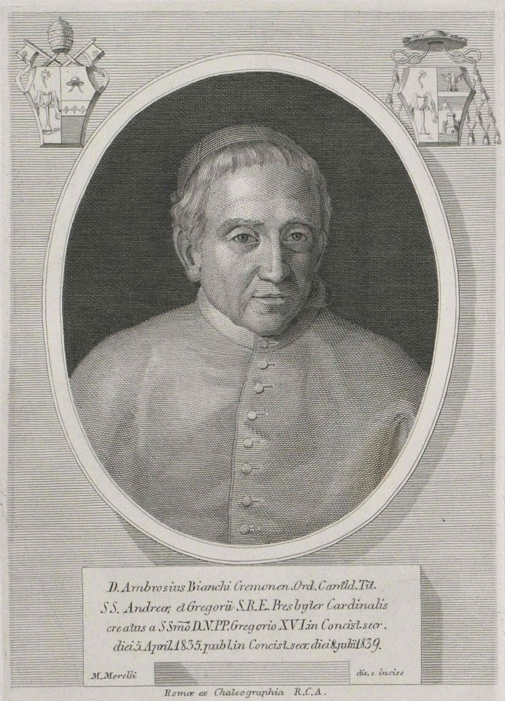 Kardinal Ambrogio Bianchi OSBCam (1771-1856)